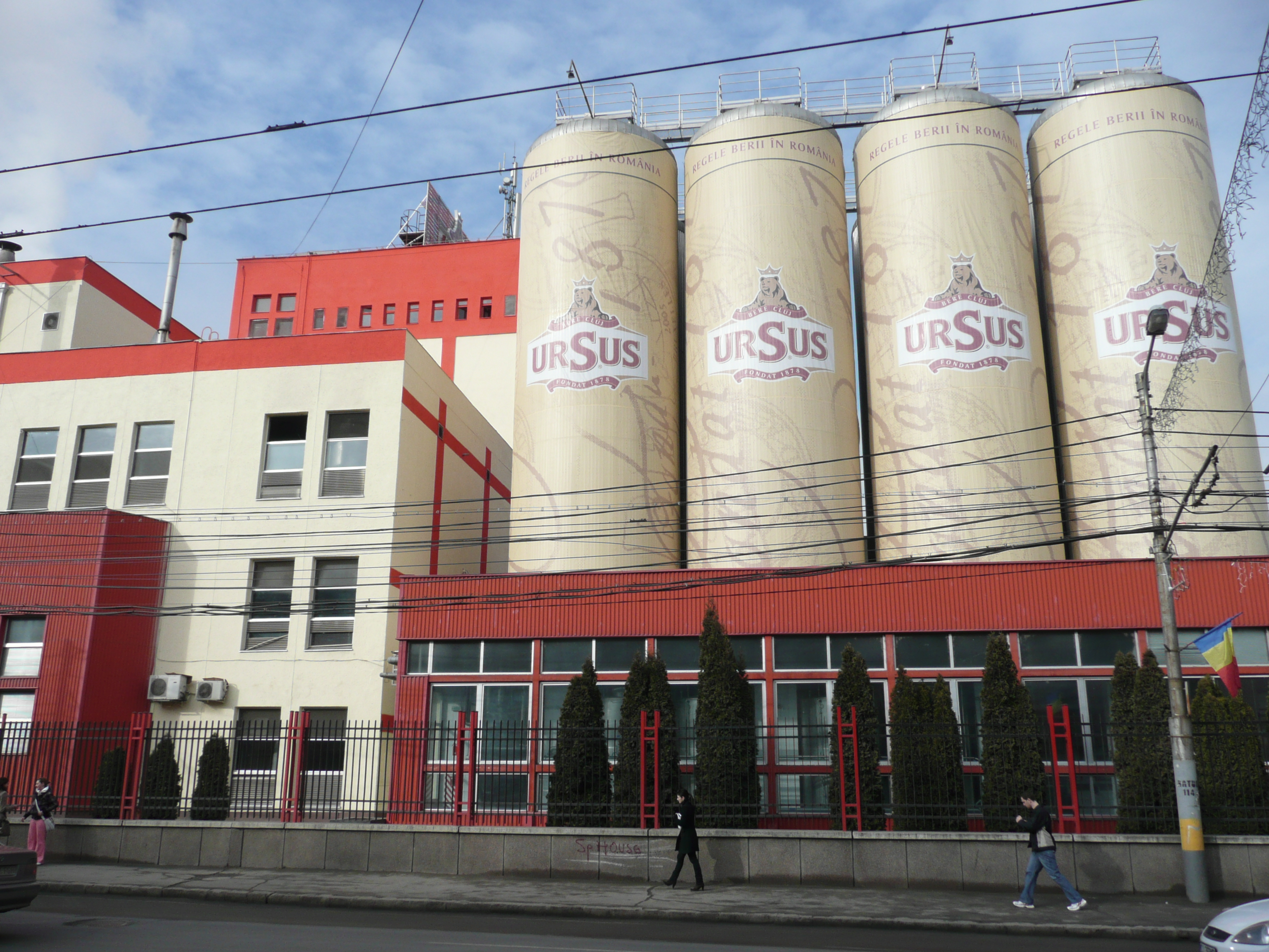 A picture of the Ursus Brewery, Cluj-Napoca